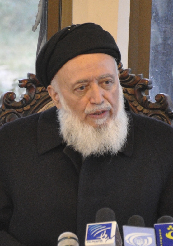 Cropped photograph of Burhanuddin Rabbani. Professor Burhanuddin Rabbani, chairman of Afghanistan’s High Council for Peace, rights, addresses the media with Nangarhar Gov. Gul Agha Sherzai, left, during the peace conference held at the governor’s palace, Dec. 21. Rabbani and other members of the High Peace Council were in Nangarhar to discuss peace initiatives with local Afghan government officials.